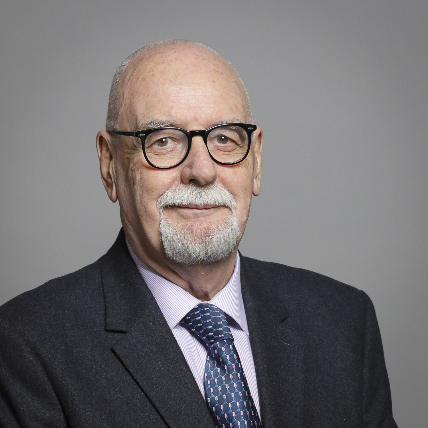 Official portrait of Lord Sawyer 1×1 portrait of Lord Sawyer